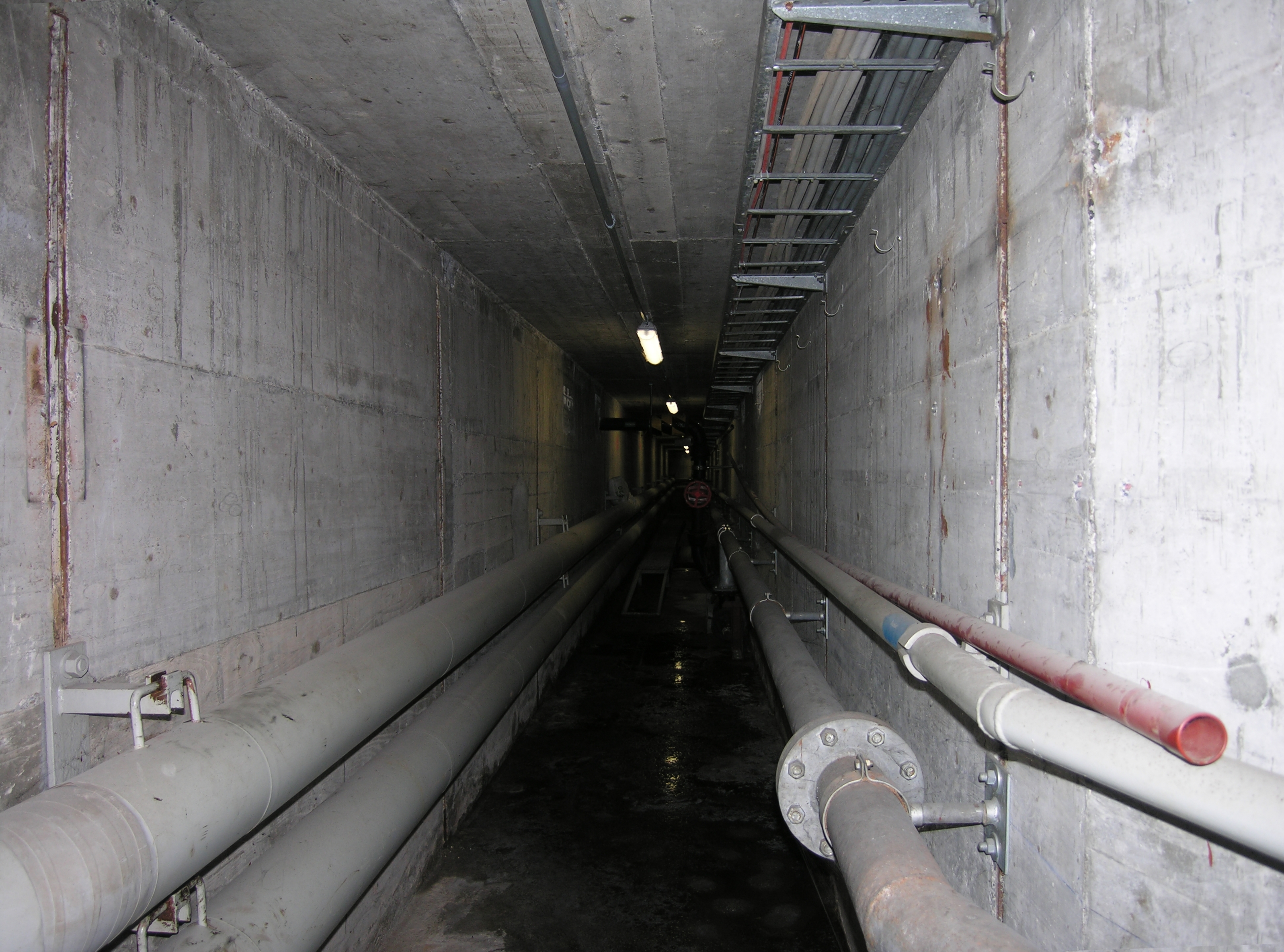 The technical tunnel under Zurich near Hardbrucke. The photographing person had the authorized access.